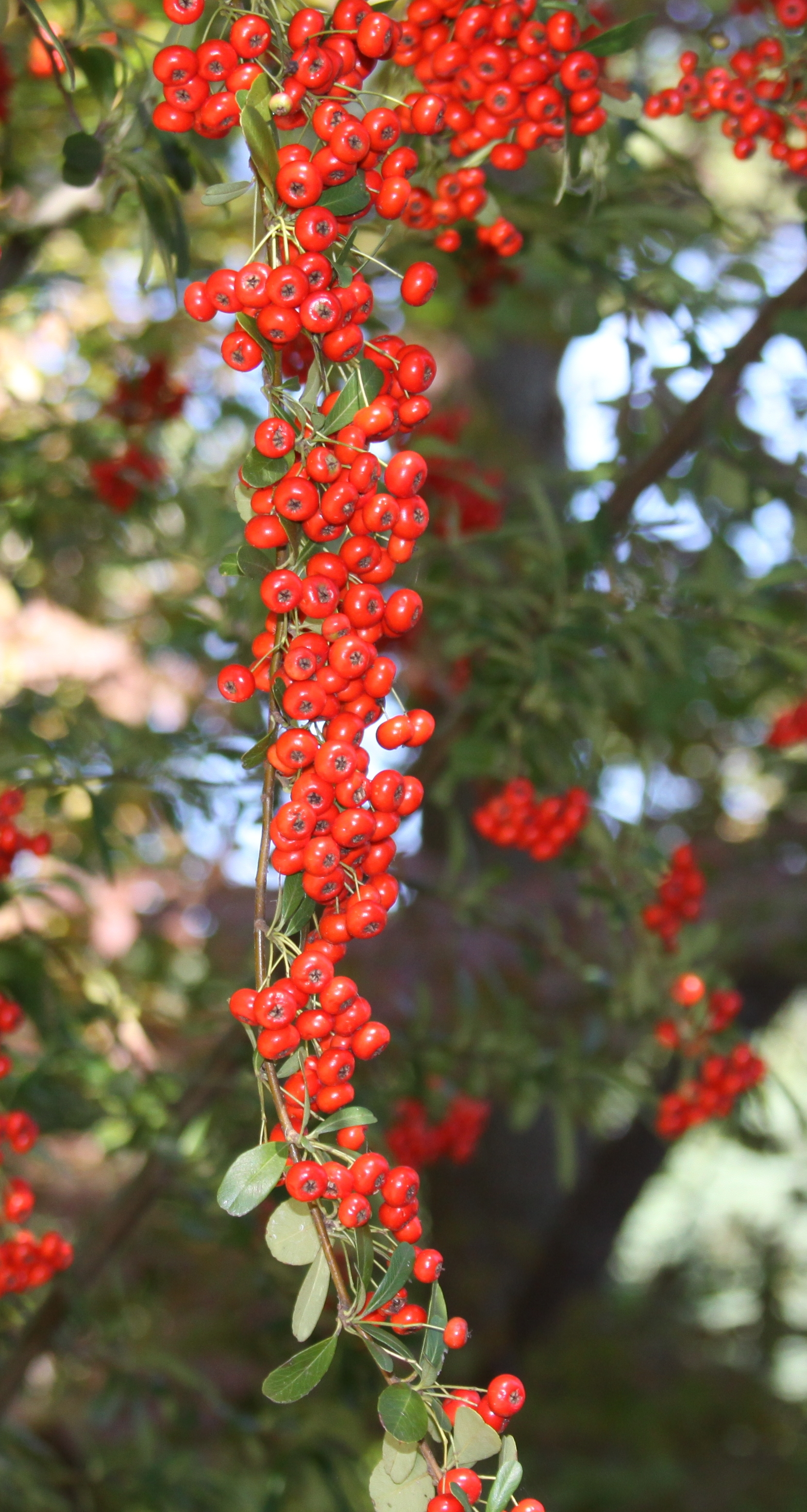 Firethorn (Pyracantha crenatoserrata) Norfolk Botanical Garden